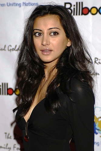 American actress Noureen DeWulf at the 79th Annual Academy Awards Children Uniting Nations/Billboard afterparty.